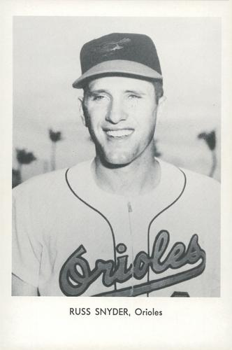 A promotional image of Baltimore Orioles player Russ Snyder.